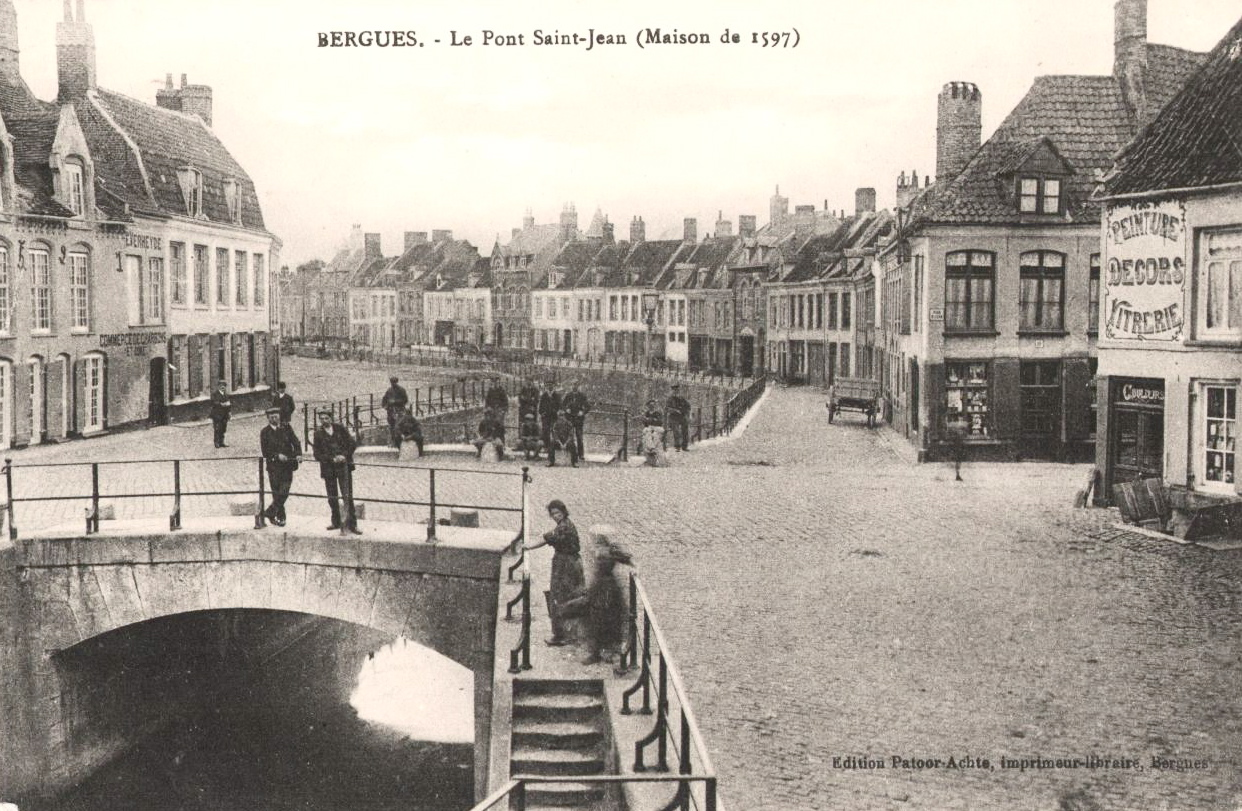 For more details of the story behind this album